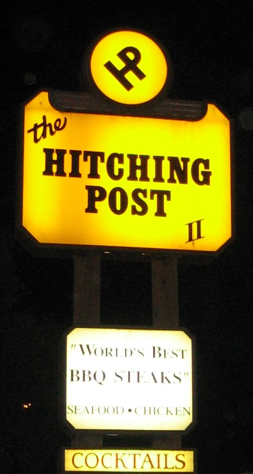 The Hitching Post II Restaurant in Buellton, California 406 E Hwy 246, Buellton, CA 93427